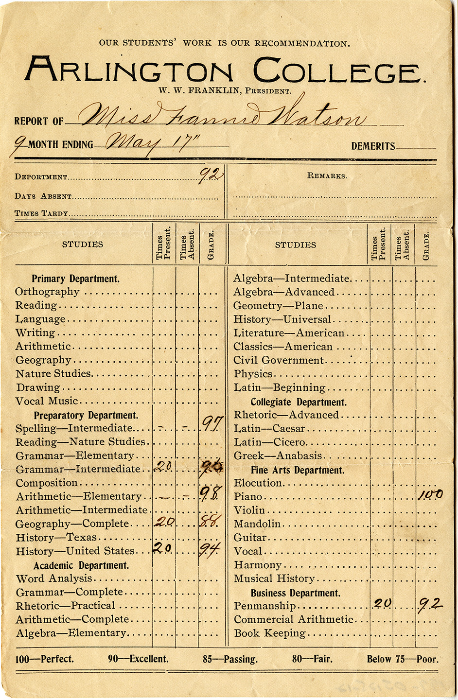 Arlington College progress report (report card) for Miss Fannie Watson, May 17 [unknown year].